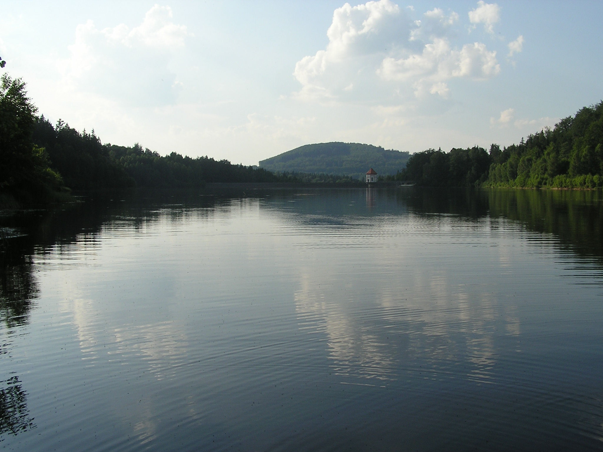 Evening on the Lake Chřibská. Večer na Chřibské přehradě. Abend auf dem Kreibitzer Talsperre. Reservoir Chřibská in Lusatian Mountains (Czech Lusatia near borders with Germany). The water is very clean although the ground is muddy and full of crayfish.